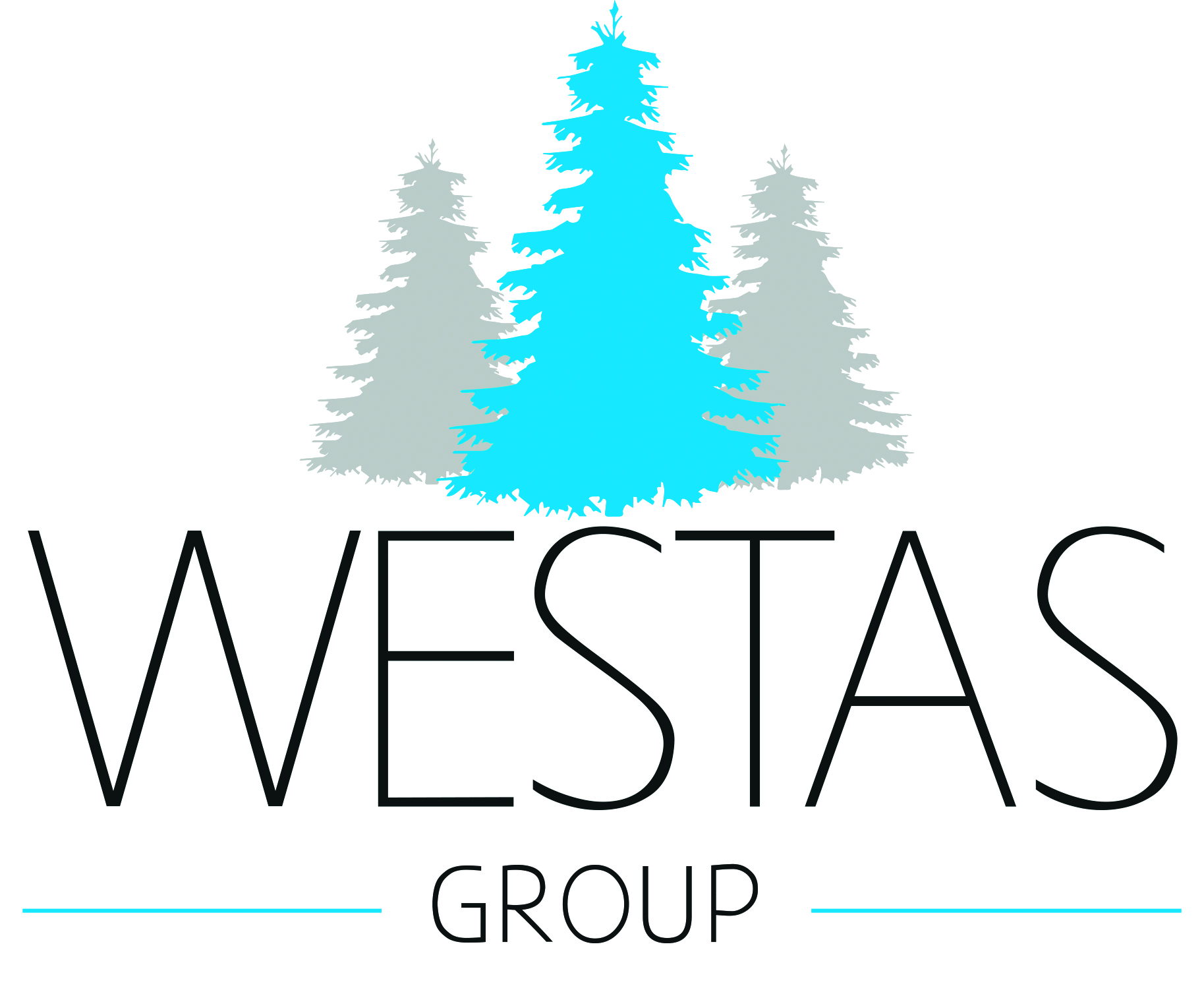 Logo on suunniteltu suomalaiselle puunjalostuskonsernille. Tavoitteena on ollut raikas, kevyt, toimialaan nähden moderni ilme ja värimaailma.